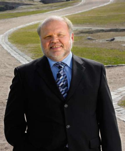 Esa Vesterbacka, the chief of Finnish bureau of prisons